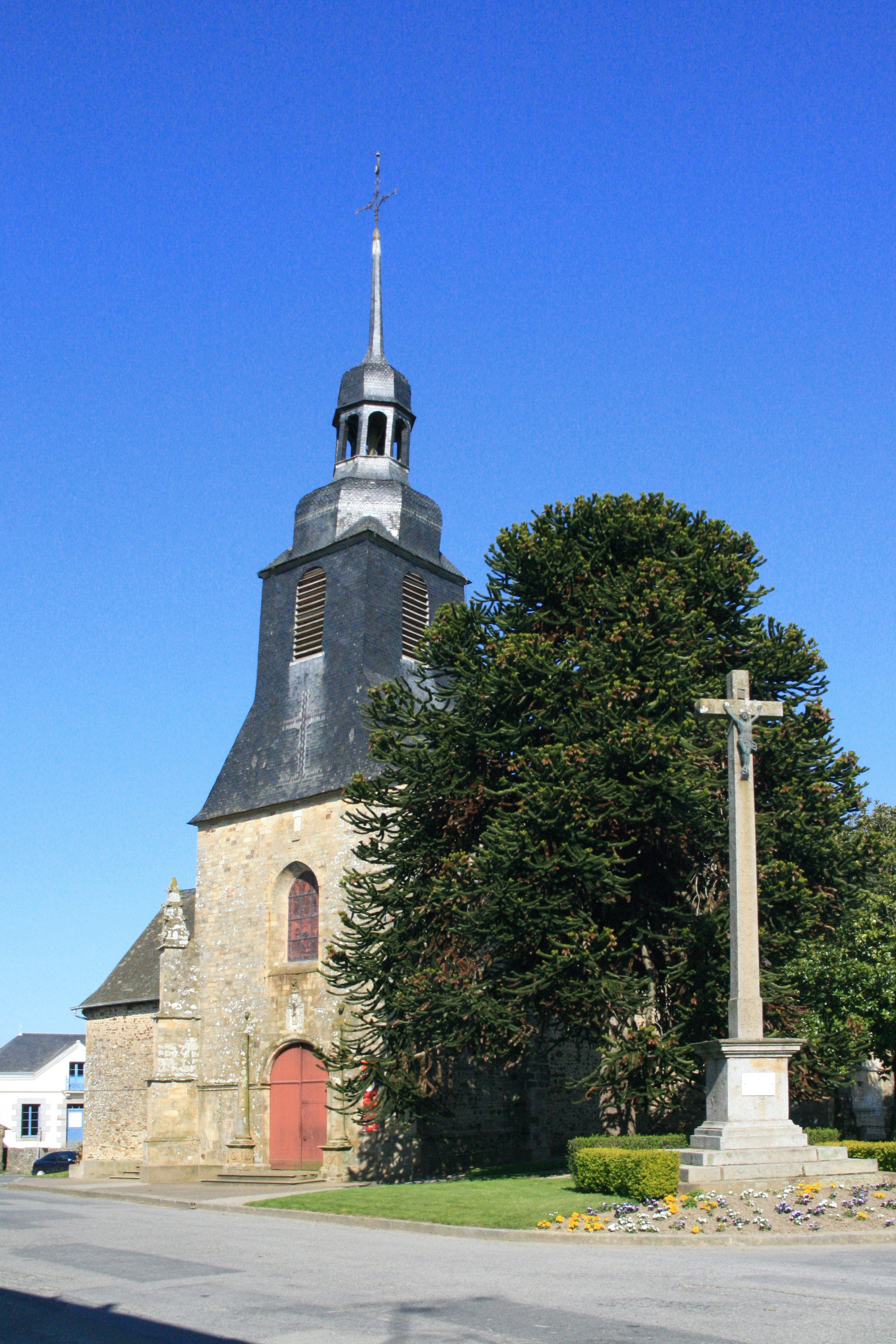 St Peter's church, village of Visseiche, department of Ille-et-Vilaine, Brittany, France. Roman church, with 16th and 17th centuries parts.